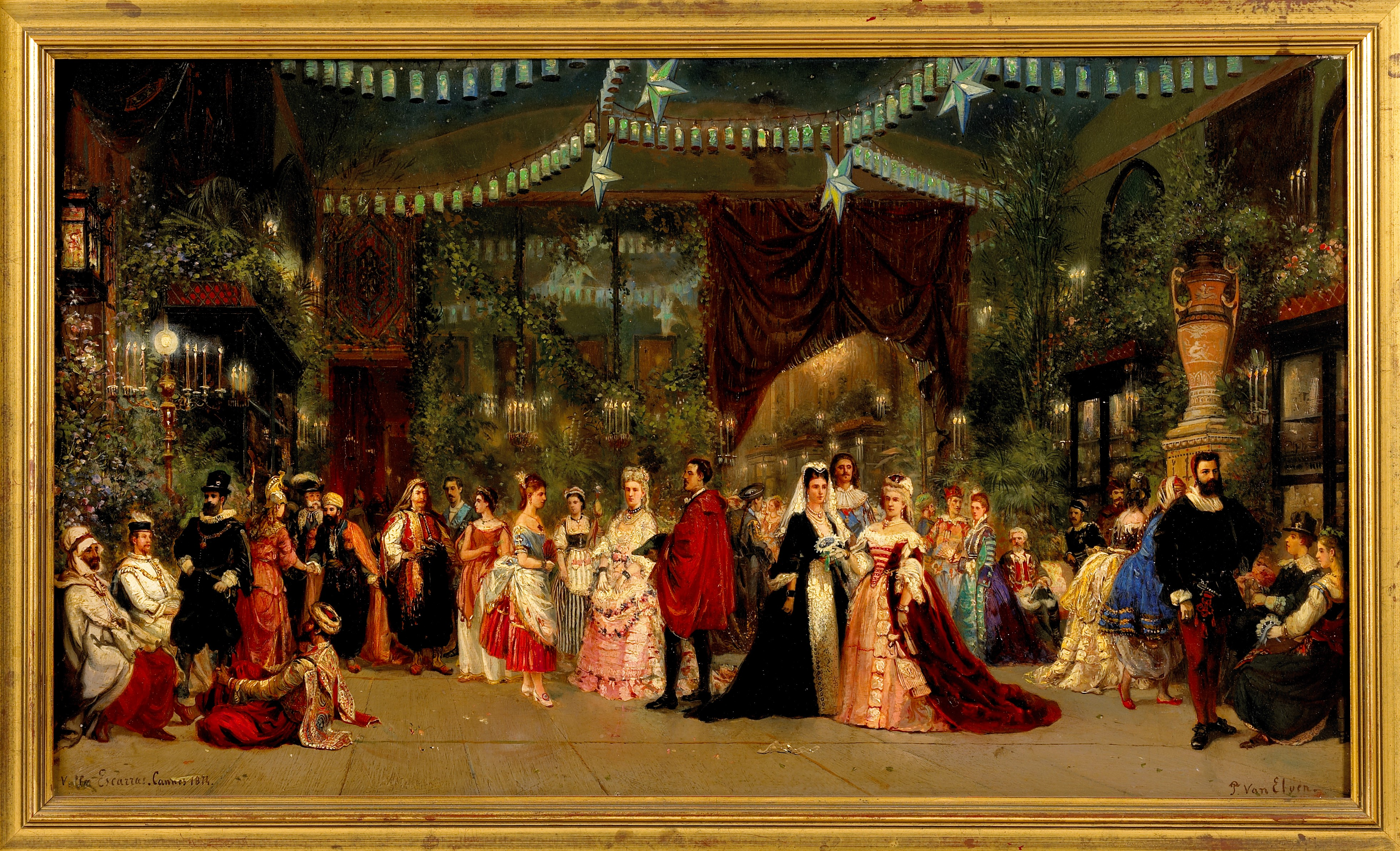 costumed ball organised on February 16, 1874, by Tinco Lycklama à Nijeholt (1837-1900) at his Villa Escarras in Cannes (France), Oil on wood